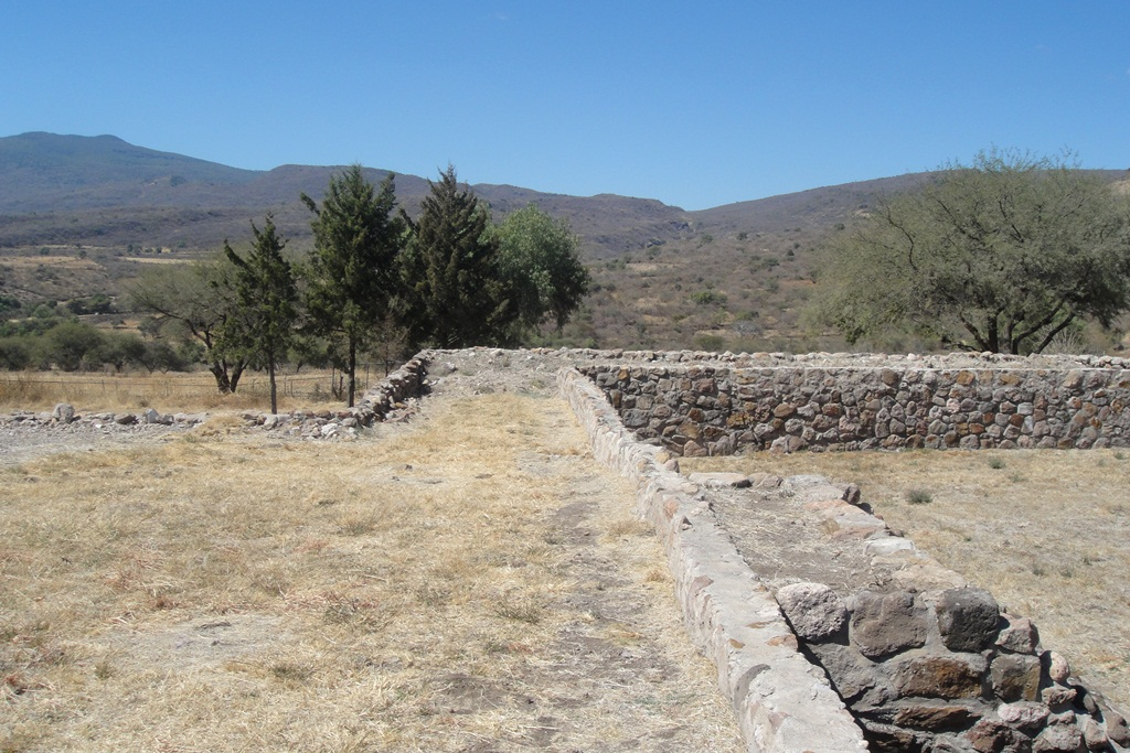 Template:Huandacareo, sunken patio, south side